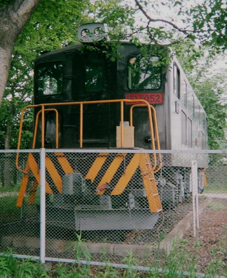 Tobu Railway Type ED5052 Electric locomotive (Japan).